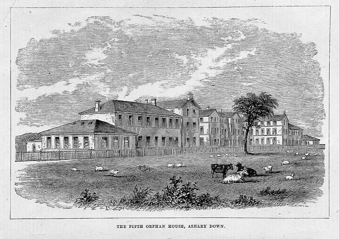 line drawing of New Orphan House No 5